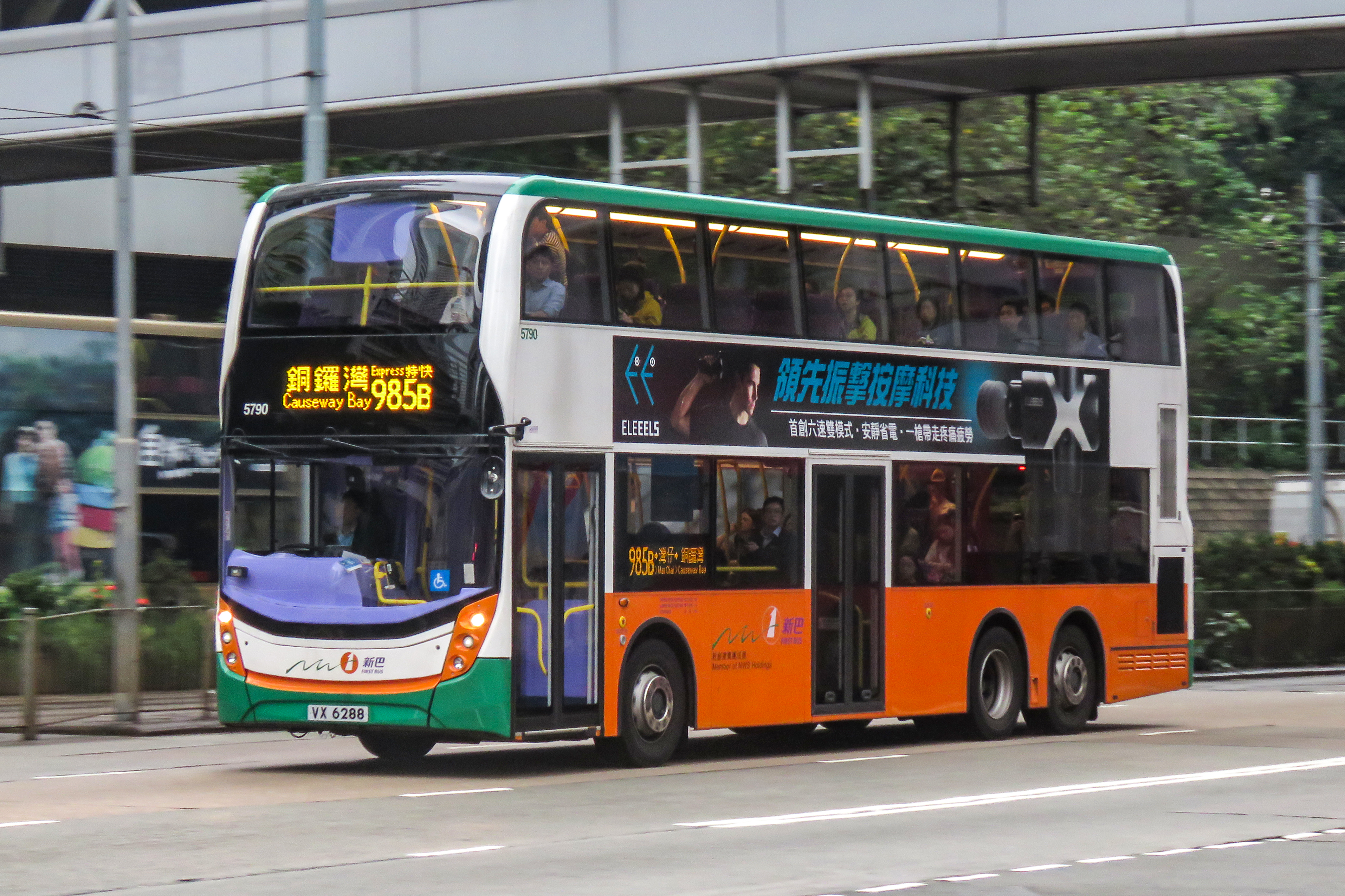 Mostly 12m.